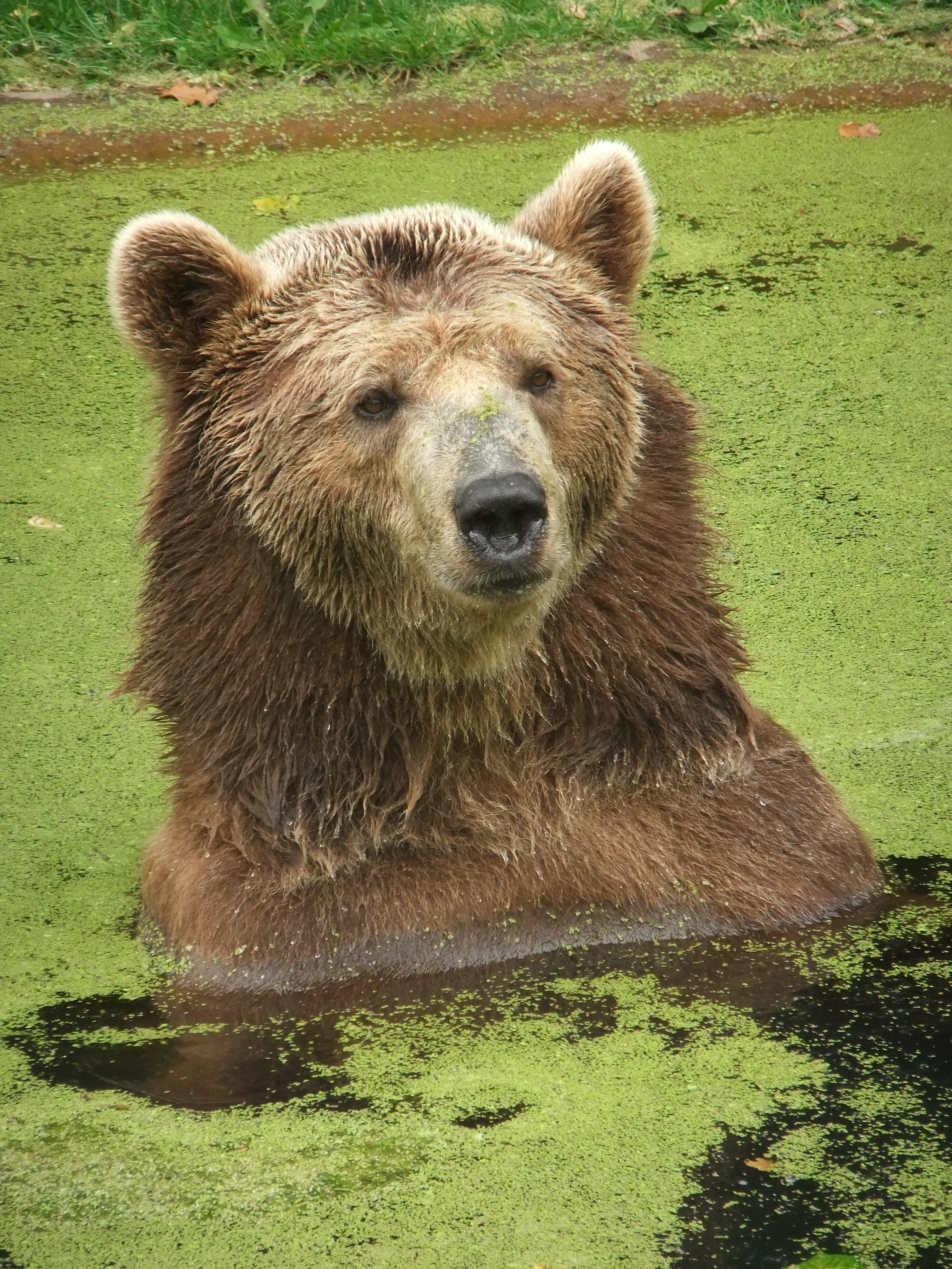 Eurasian Brown Bear at Berlin zoological garden